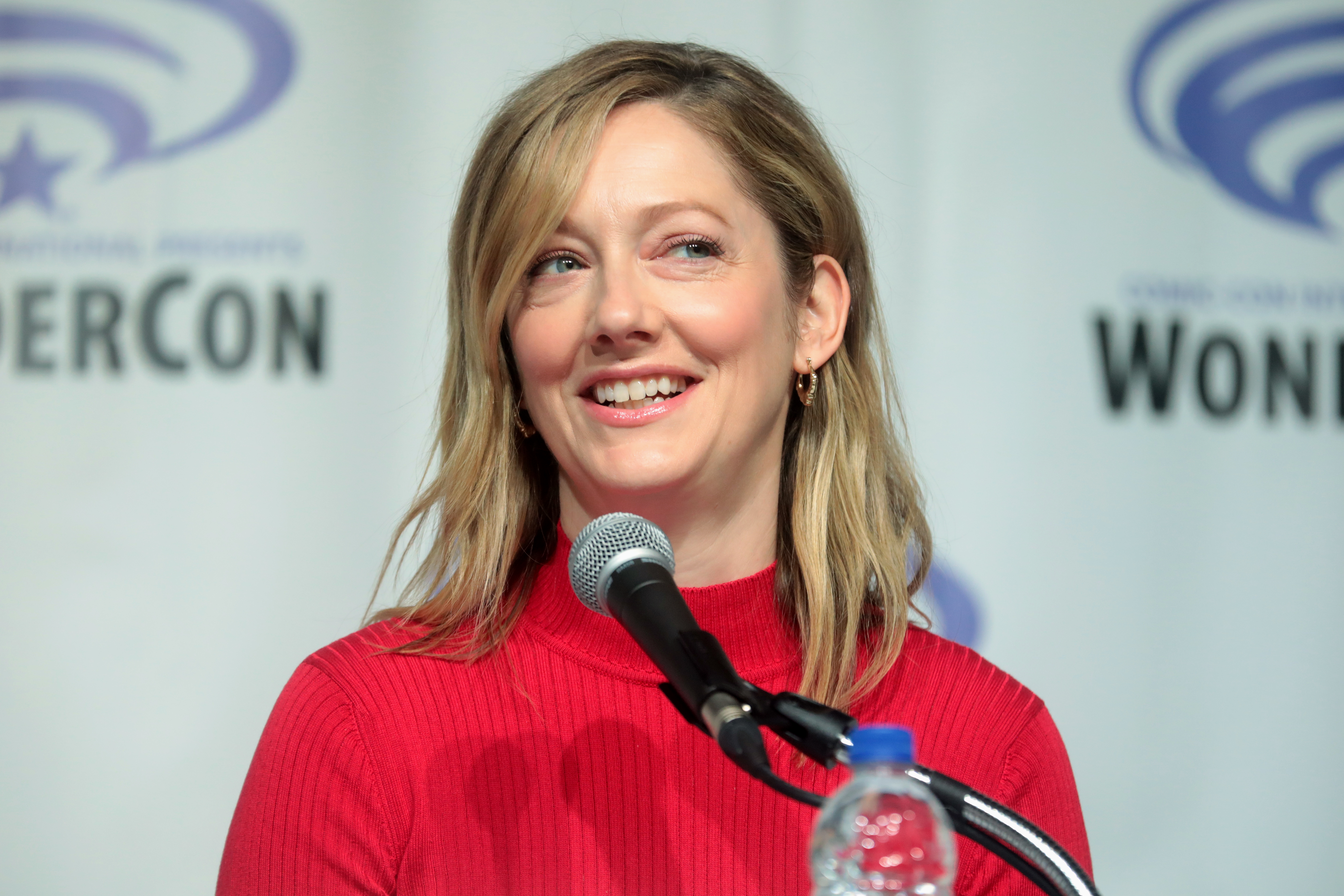 Judy Greer speaking at the 2019 WonderCon, for "Archer", at the Anaheim Convention Center in Anaheim, California.